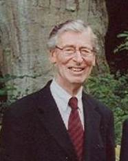 Dutch economist Henk Misset at NIAS Wassenaar, 2002